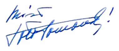 signature of Michal Dočolomanský (Slovak actor)